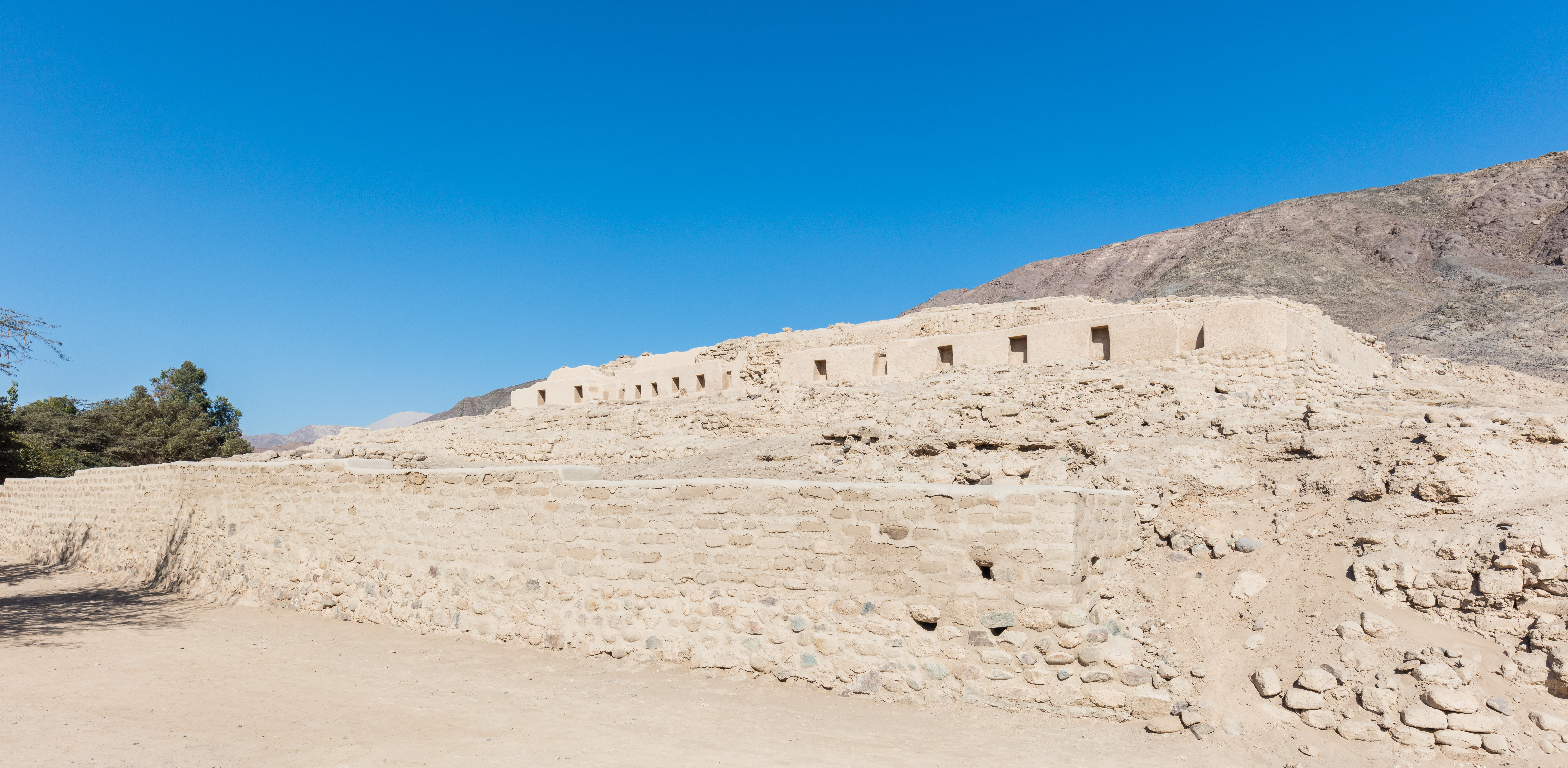 Los Paredones, Nazca, Peru